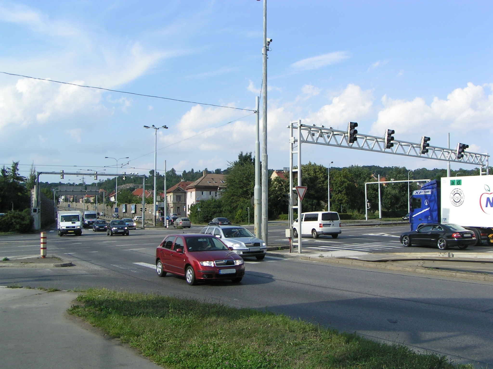 Prague, Hloubětín - a junction of Poděbradská street with Kbelská and Průmyslová, from the Průmyslová side (edited: without VRP)